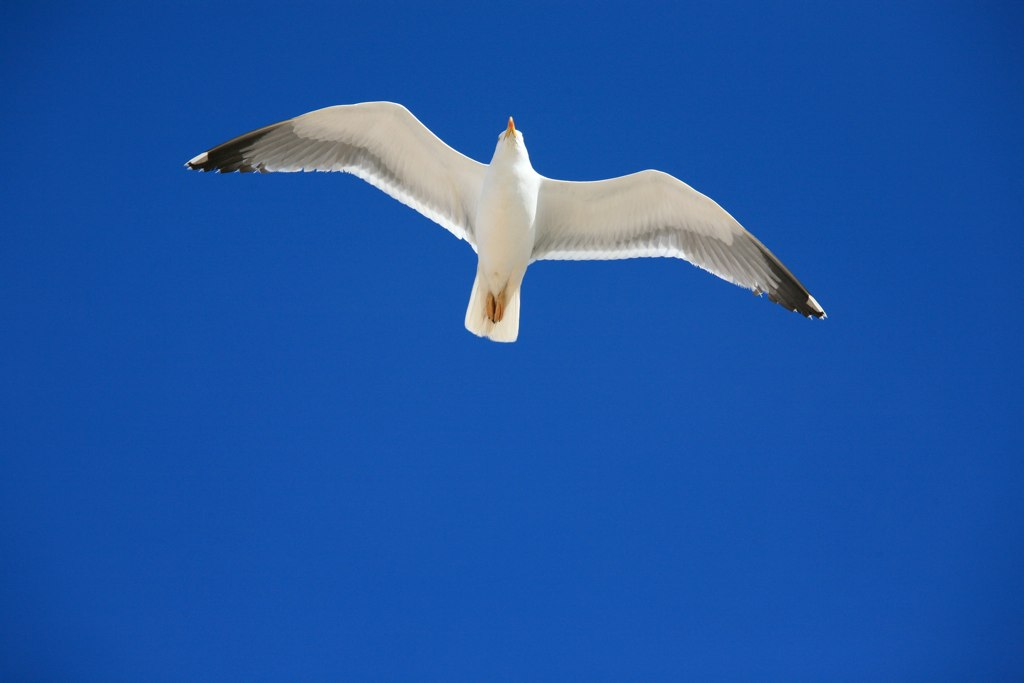 Larus michahellis, Morocco